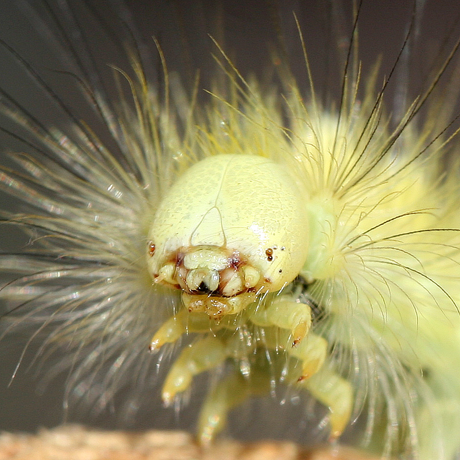 Calliteara pudibunda - head of the caterpillar